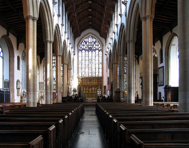 St Peter Mancroft, Norwich - East end